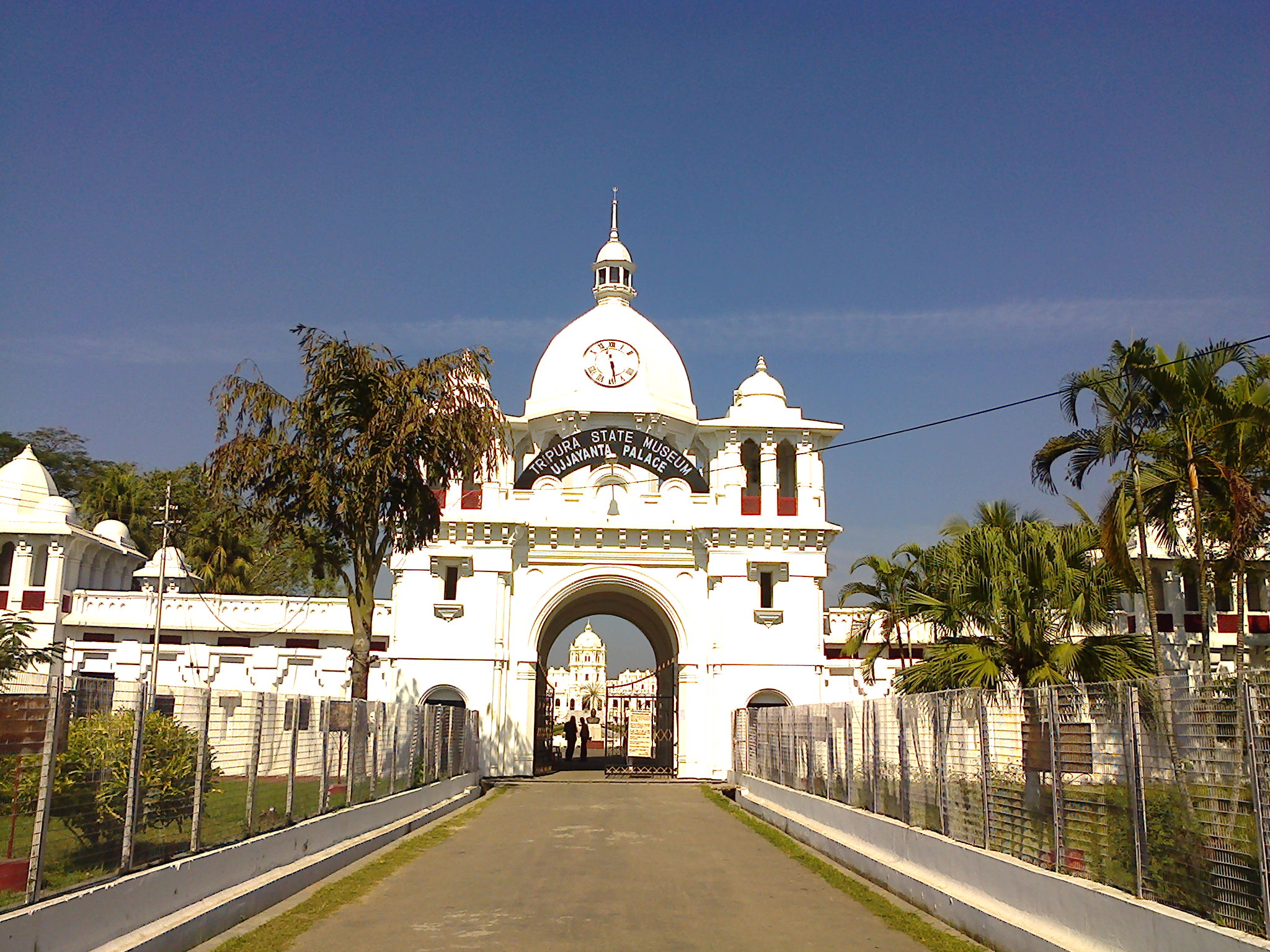 Tripura State Museum